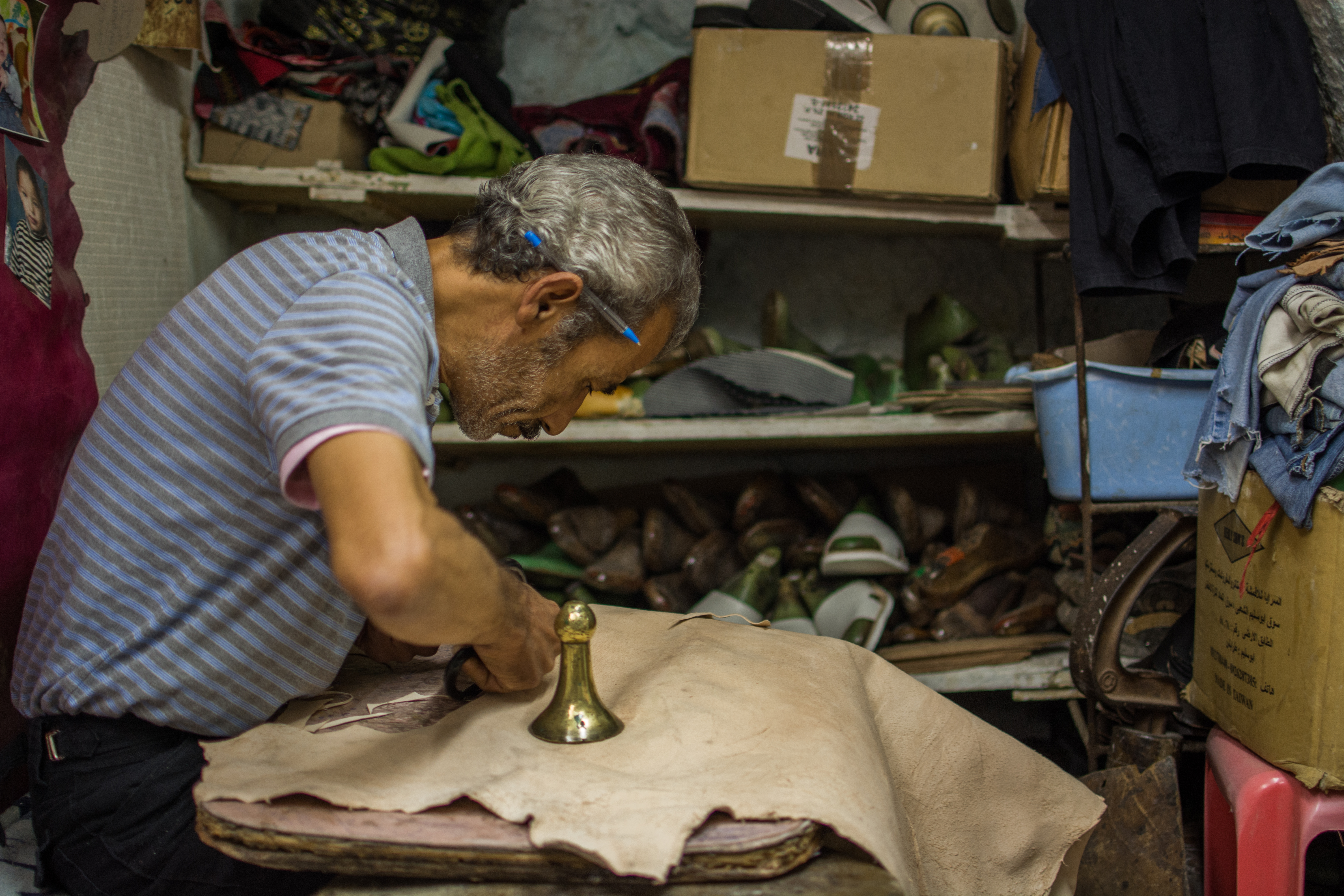 This is an image of Cultural Fashion or Adornment from Tunisia